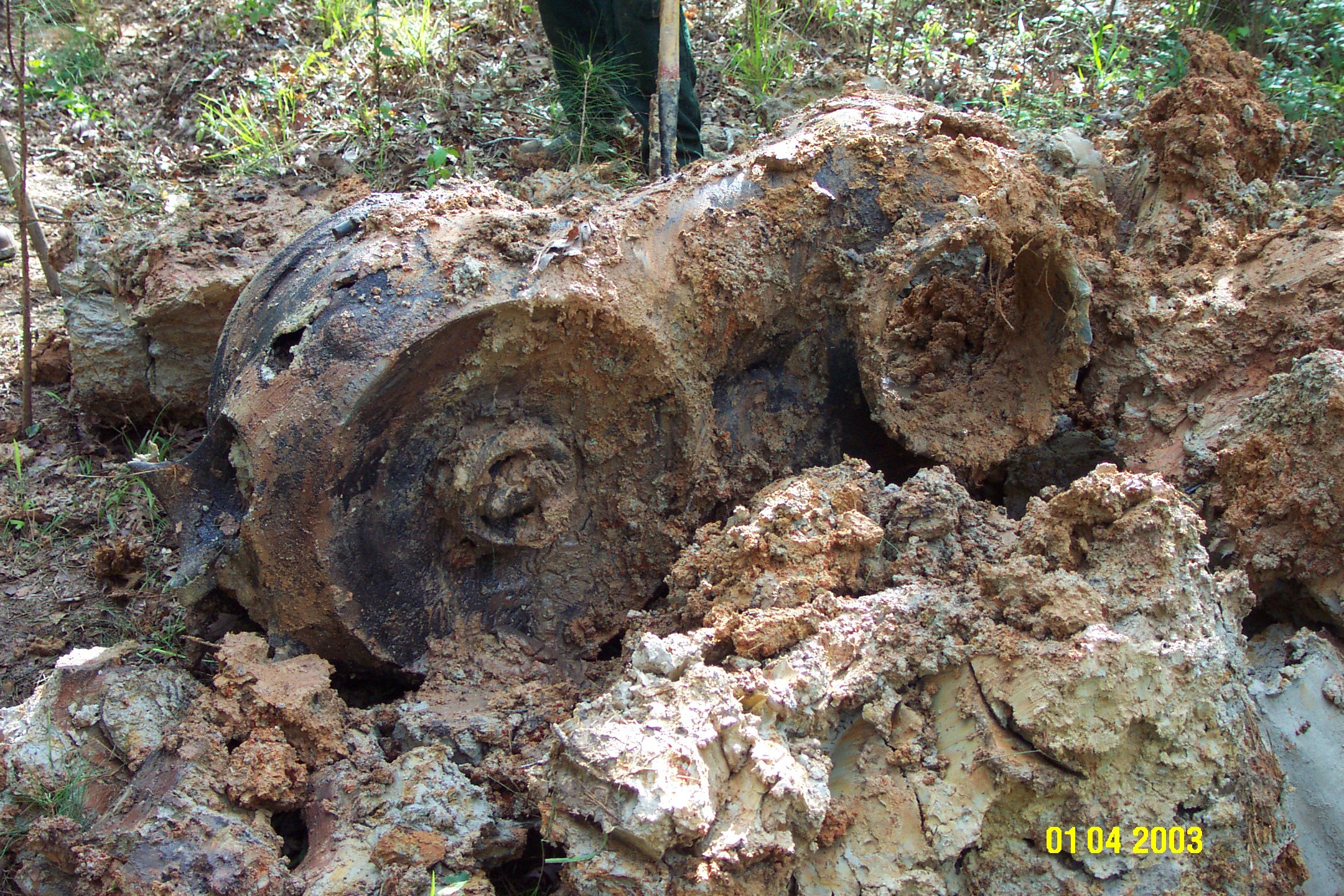 One of the Space Shuttle Columbia's Main Engine powerheads found on the grounds of Fort Polk, Louisiana. The 800-pound unit was one of the easternmost-recovered pieces of debris from Columbia. For more information on STS-107, please see GRIN Columbia General Explanation